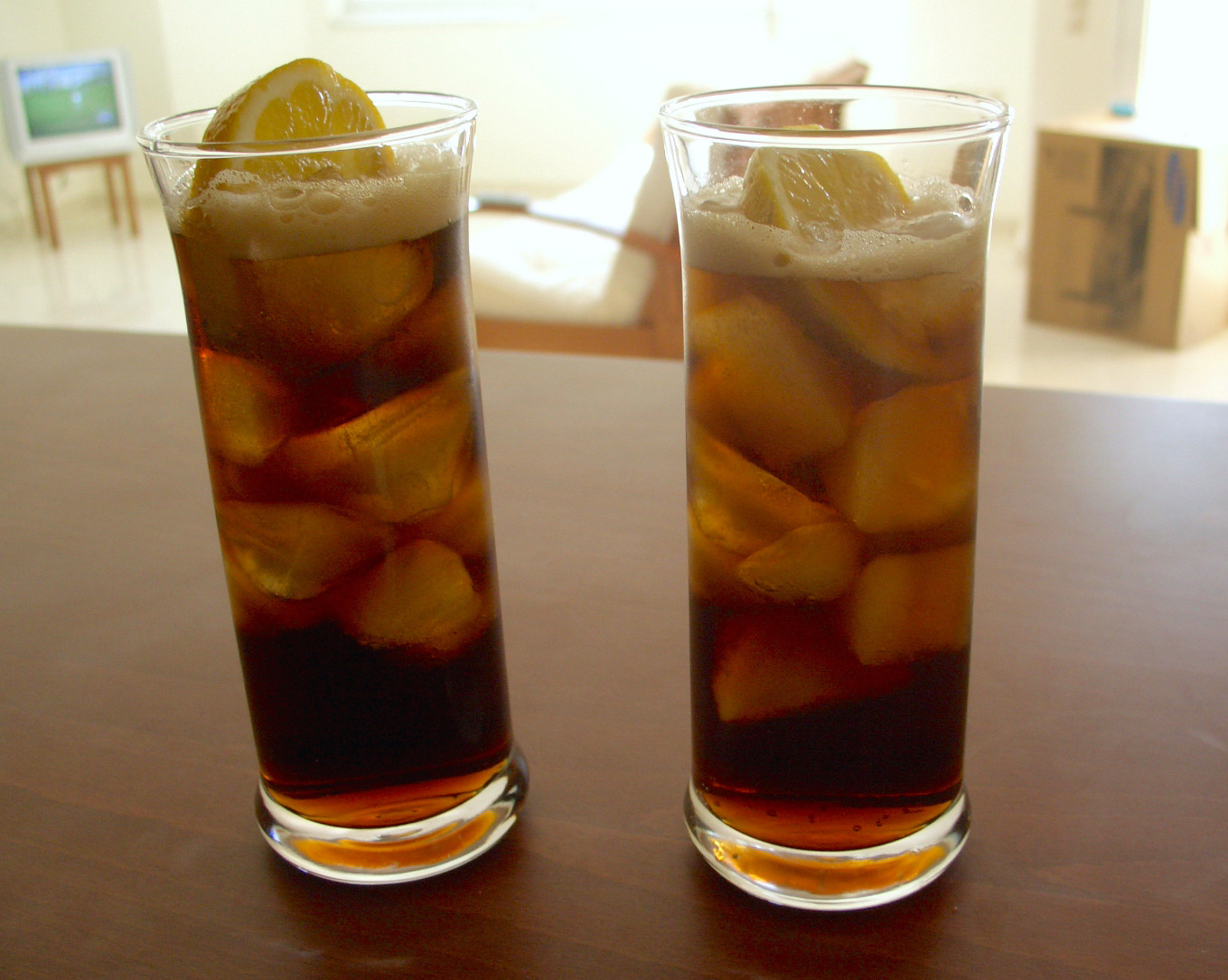 Cuba Libre: "We've added a new cocktail to our at home menu - a Cuba Libre" (germaniko pouli, Crete, Greece, cocktail, cocktails, drinks, Cuba libre)